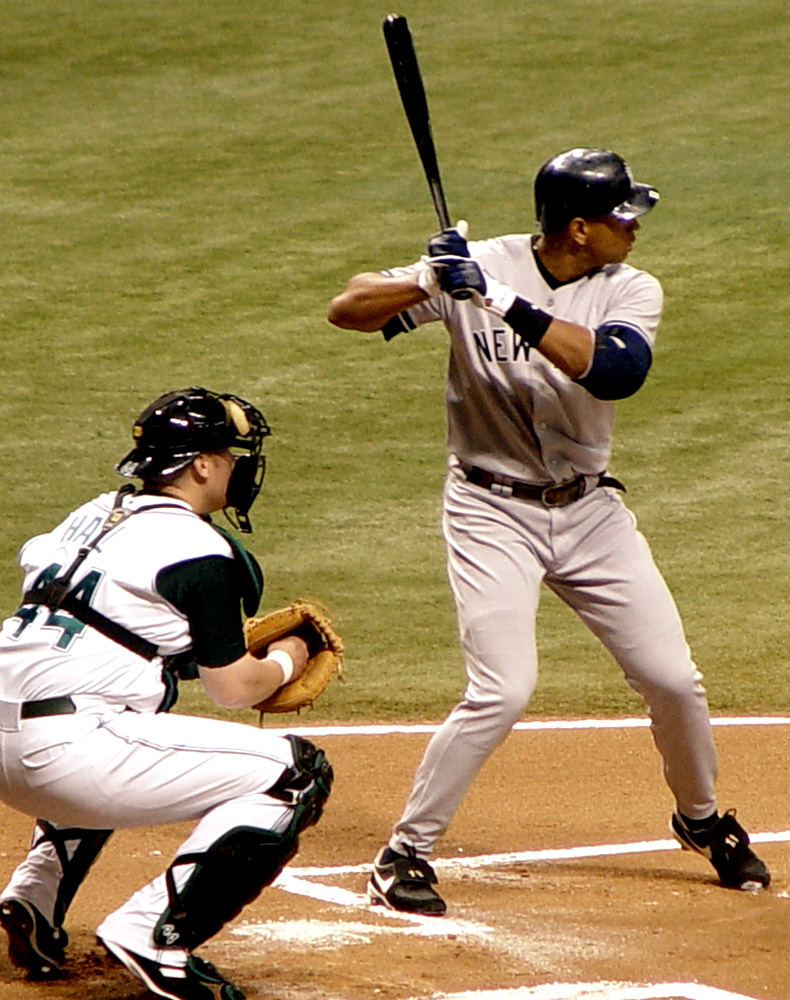 Alex Rodriguez awaits a pitch, September 13, 2005. 05:14, 14 September 2005 . . Googie man . . 790×1000 (341 KB)